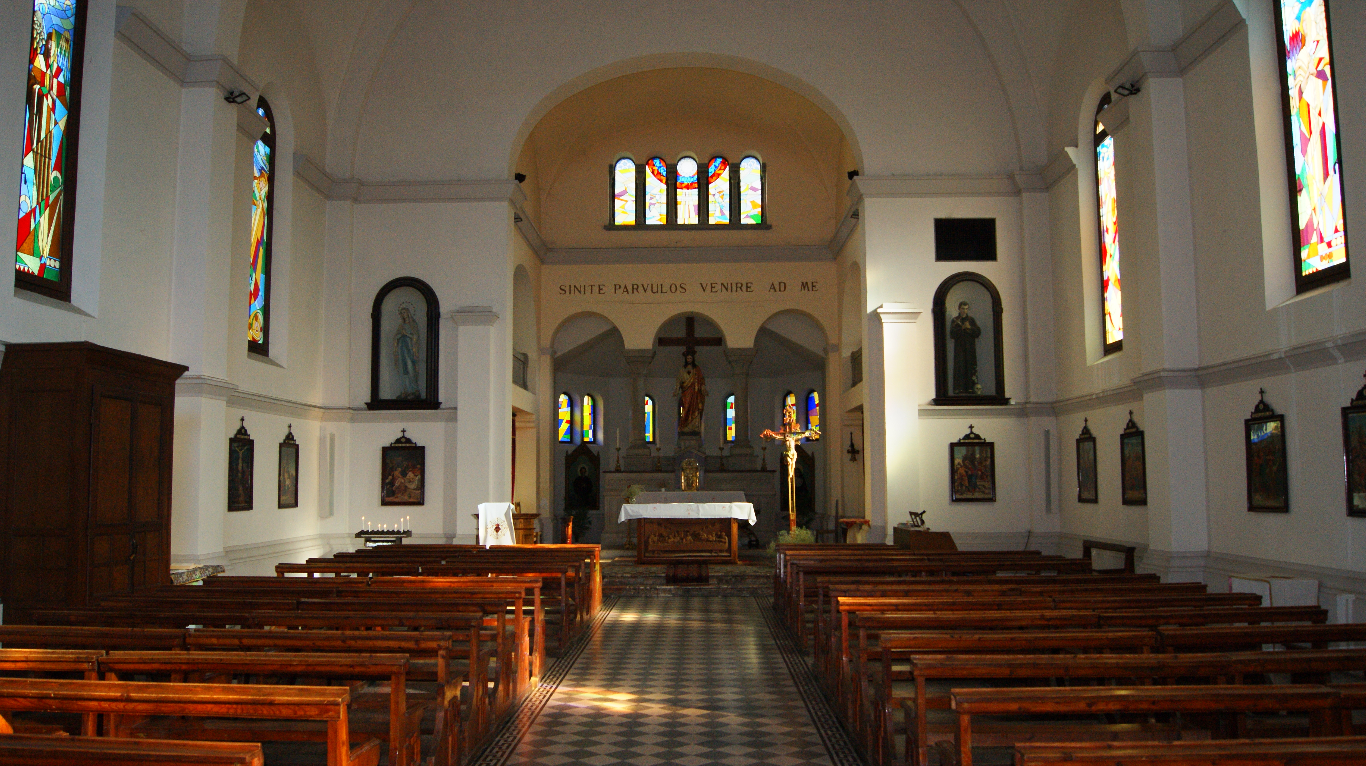 Chiesa del Sacro Cuore (Church of the Sacred Heart) in Tirano.